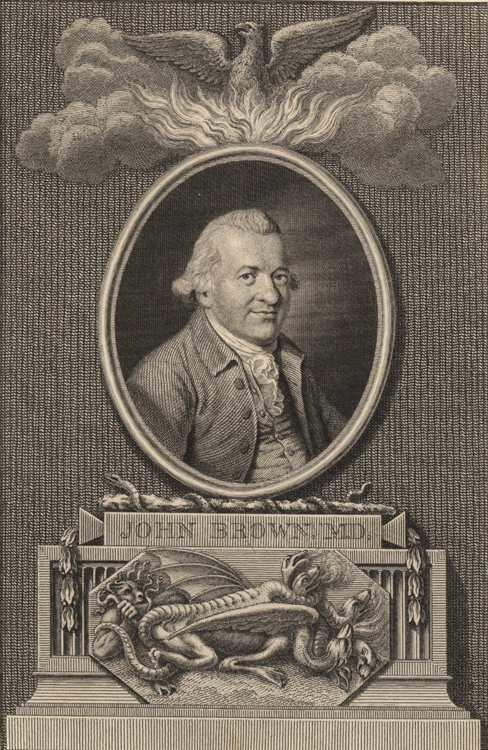 John Brown (1810-1882), Scottish physician and essayist.